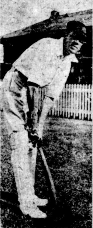 Original caption: DAVE PRITCHARD. The Port Adelaide captain, who, in the present season has compiled 361 runs in first-class cricket, for an average of 60.1. Easter States critics consider him second only to Bardsley, as a left-hander in Australia at the present time.